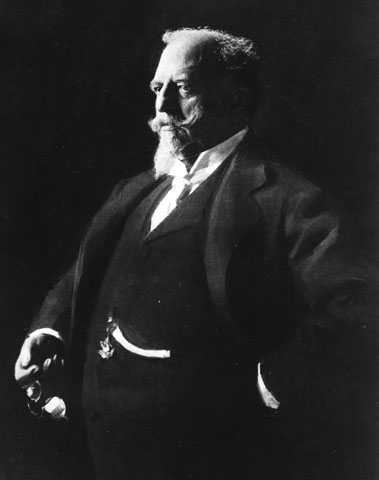 Photograph of Adolphus Busch (1839-1913), co-founder of Anheuser-Busch.